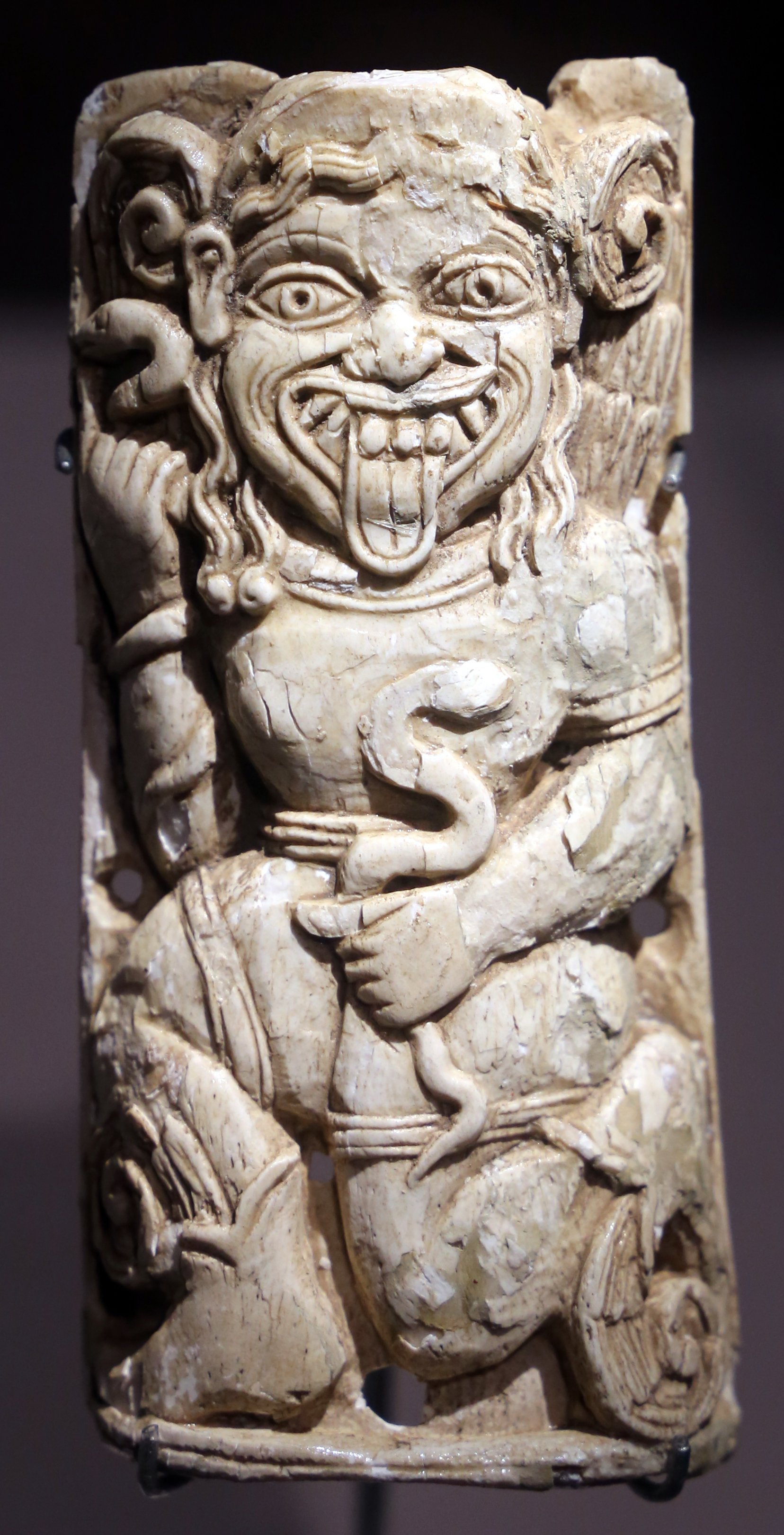 Ancient Greek antiquities in the Rijksmuseum van Oudheden